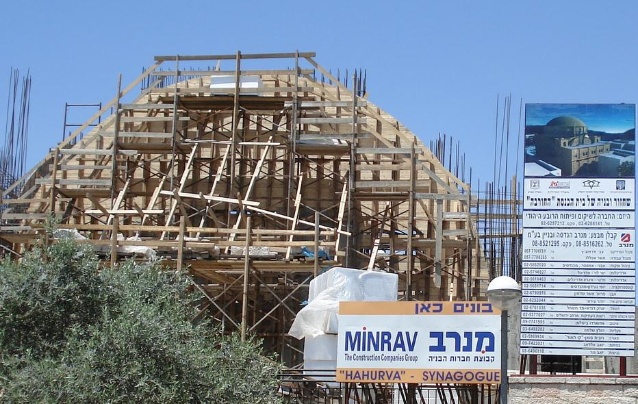 Old Jerusalem - Hurva Synagogue